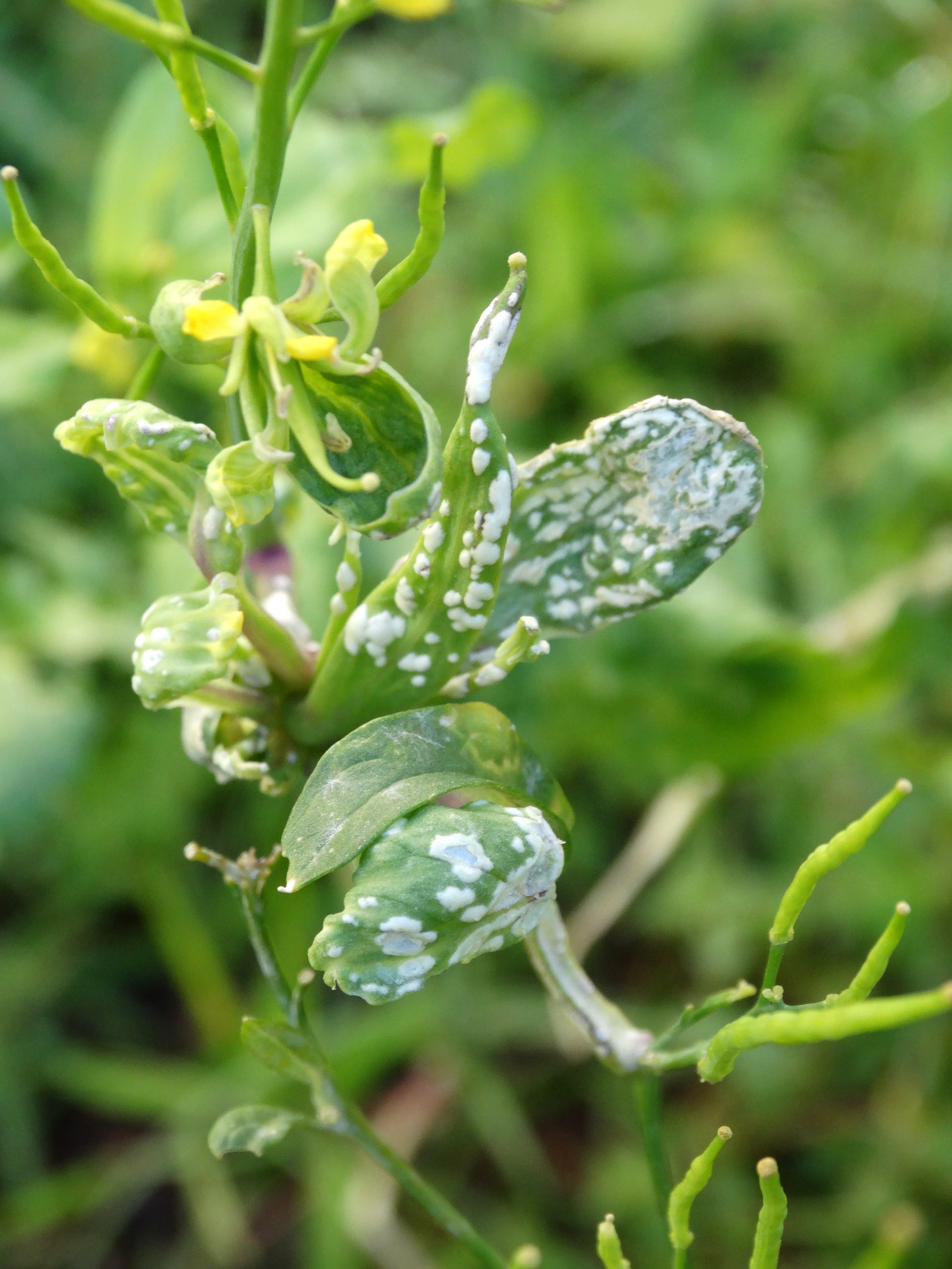 Pathogen: Albugo candida Read